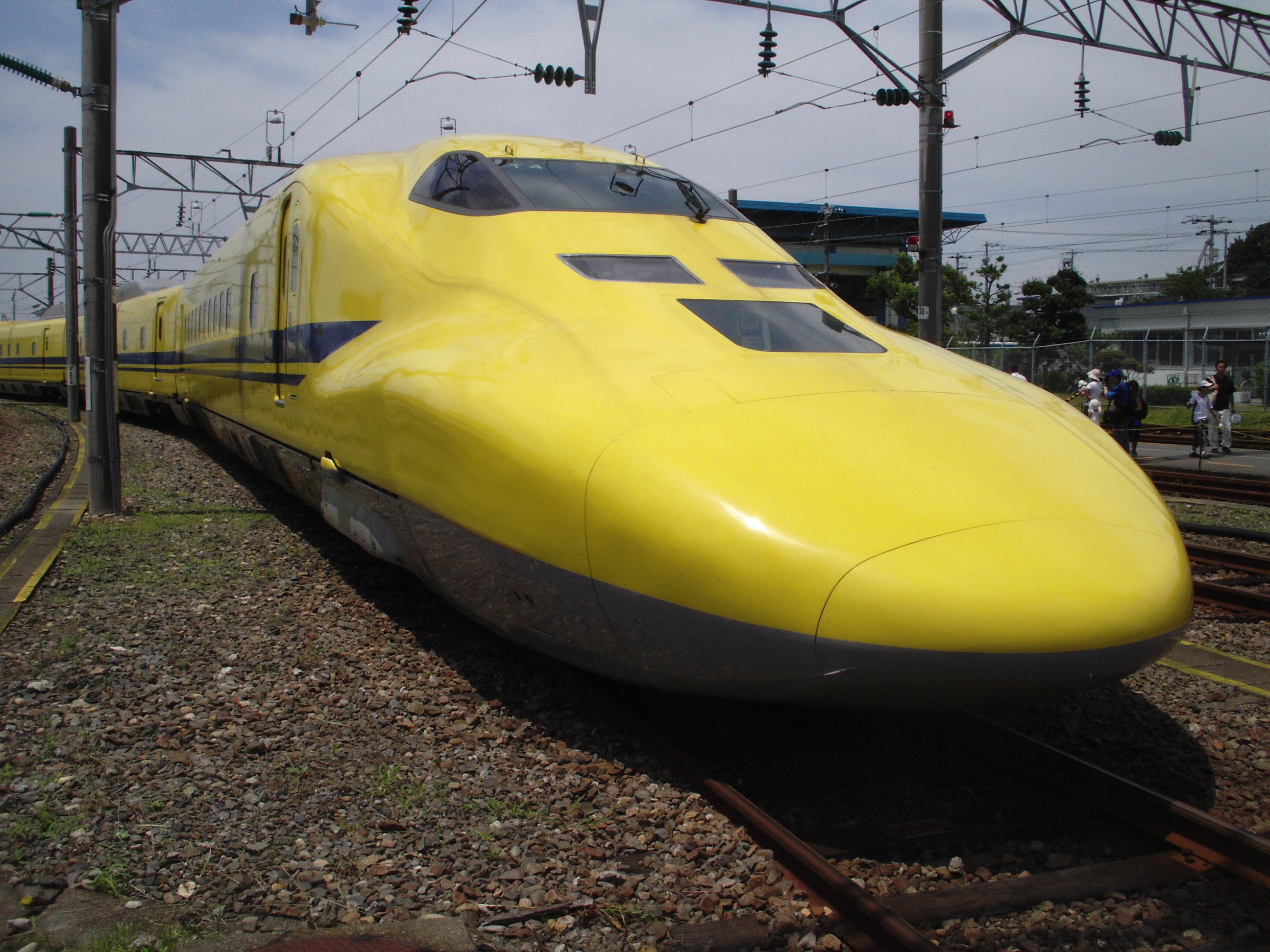 JR Central Class 923-0 "Doctor Yellow" shinkansen inspection set T4 at Hamamatsu Works Open Day